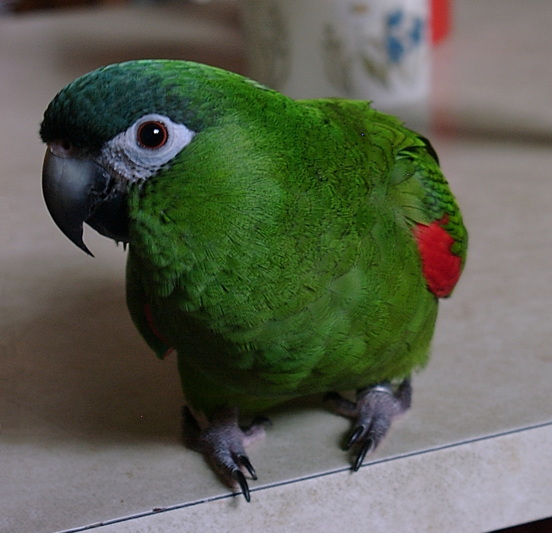 Red-shouldered Macaw (Diopsittaca nobilis), also known as the Noble Macaw, Long-wing Macaw or Hahn's Macaw